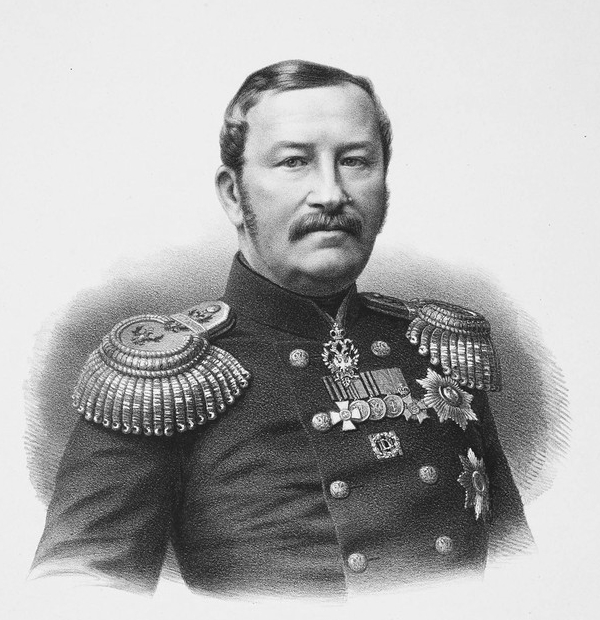 S. KHROUTSCHOFF, Admiral.